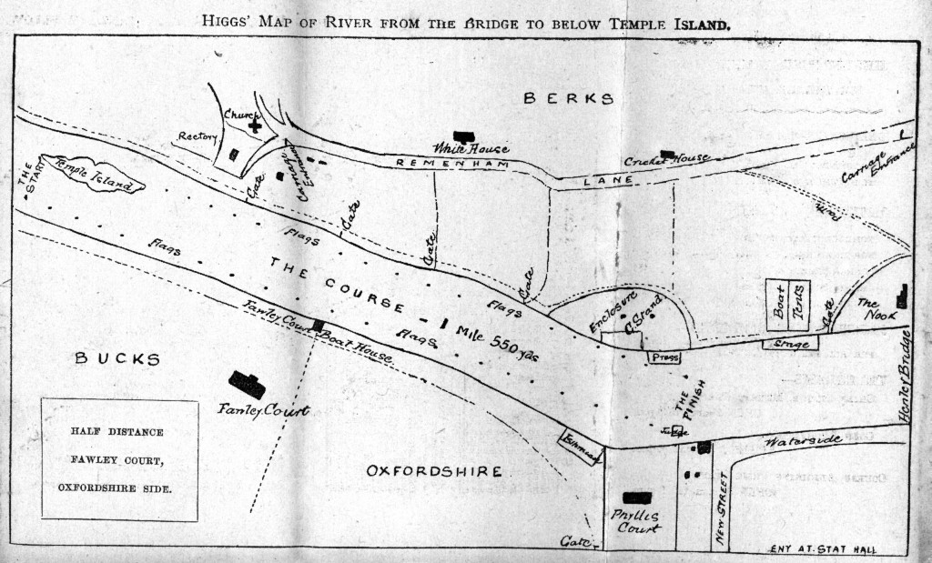 Henley regatta course map - B&W drawing - from the regatta programme - July 5, 1893